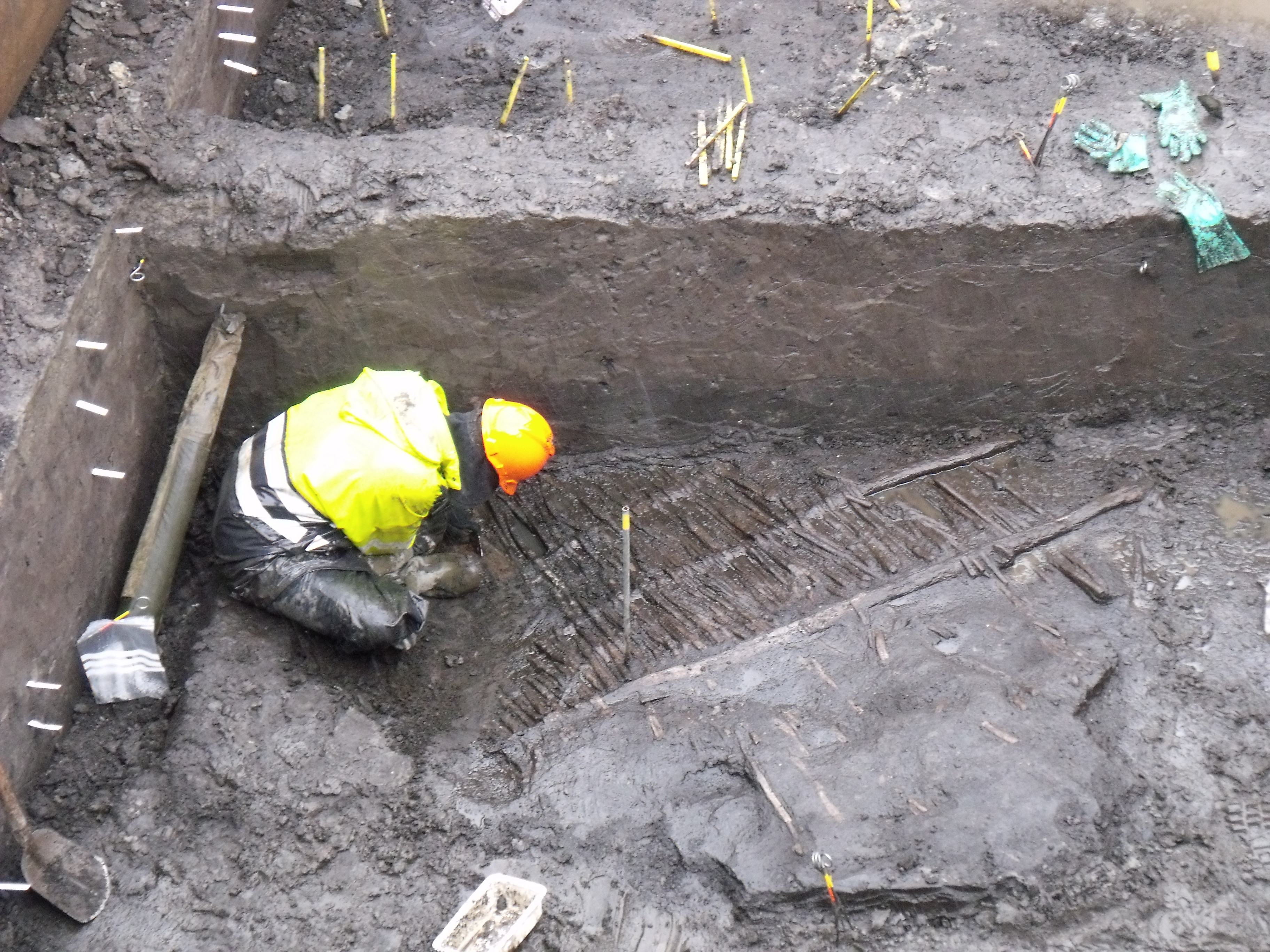 Digging up the settlement of Rotta which was washed away by the waves in the 12th Century. After the land was protected by a system of dikes and a dam across the river Rotte the modern town of Rotterdam was formed on the same spot. The yellow stakes show the outline of the walls of a farm built on top of a small artificial mound from the later stages of Rotta. In front of that on a lower level an archaeologist is working on a wall from a farm from an earlier stage. Digging up the settlement of Rotta which was washed away by the waves in the 12th Century. After the land was protected by a system of dikes and a dam across the river Rotte the modern town of Rotterdam was formed on the same spot. The yellow stakes show the outline of the walls of a farm built on top of a small artificial mound from the later stages of Rotta. In front of that on a lower level an archaeologist is working on a wall from a farm from an earlier stage.